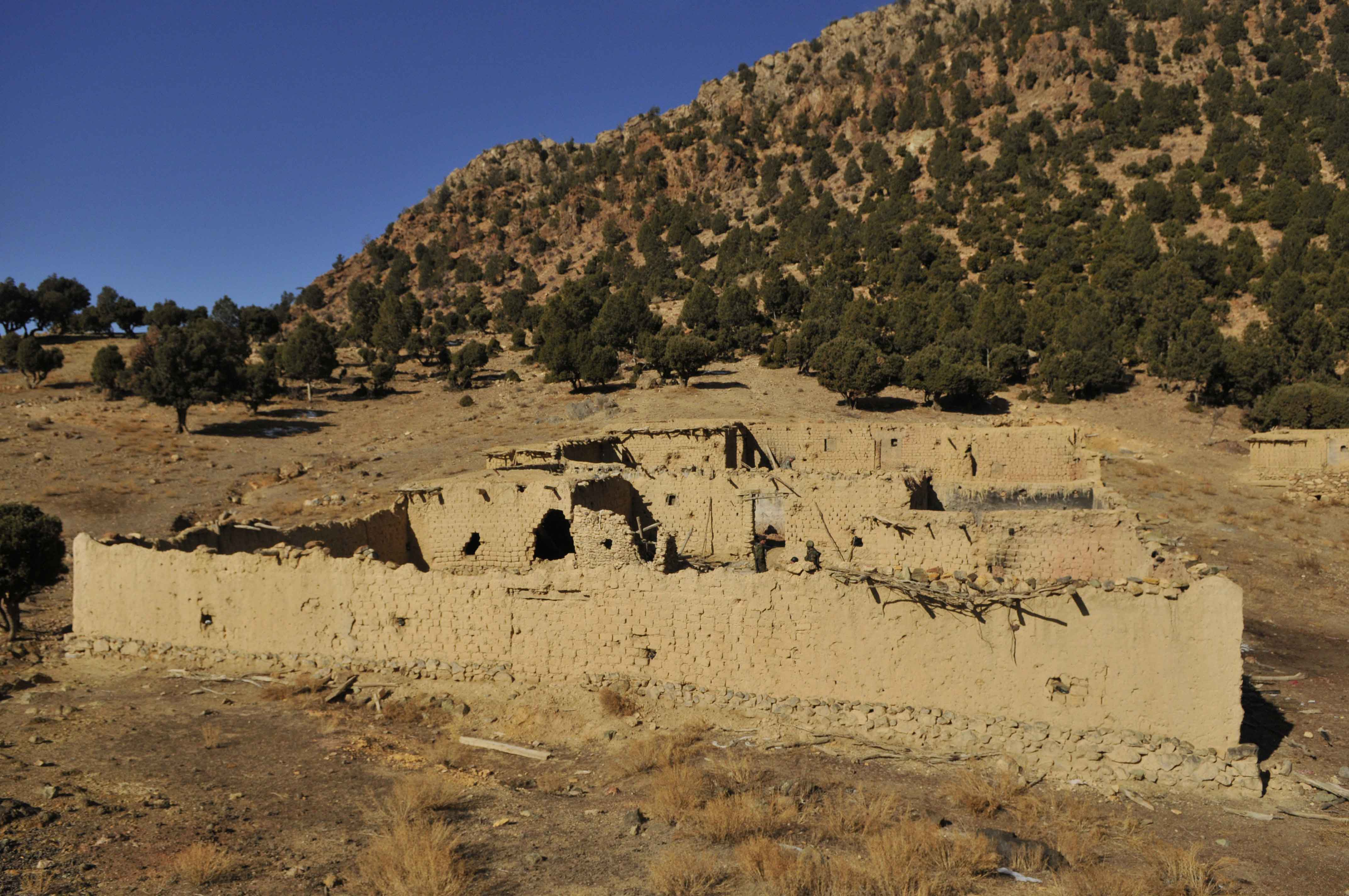 An Afghan compound reported to have been a "Taliban hotel" or Taliban safehouse. photo by Stephen J. Otero